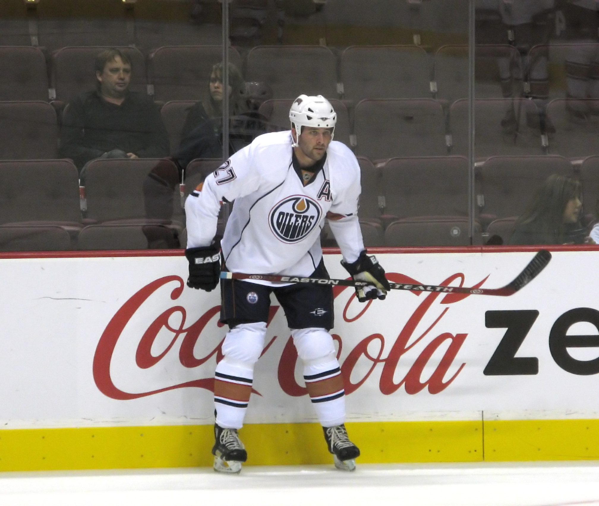 Dustin Penner in an Oilers uniform, September 2007